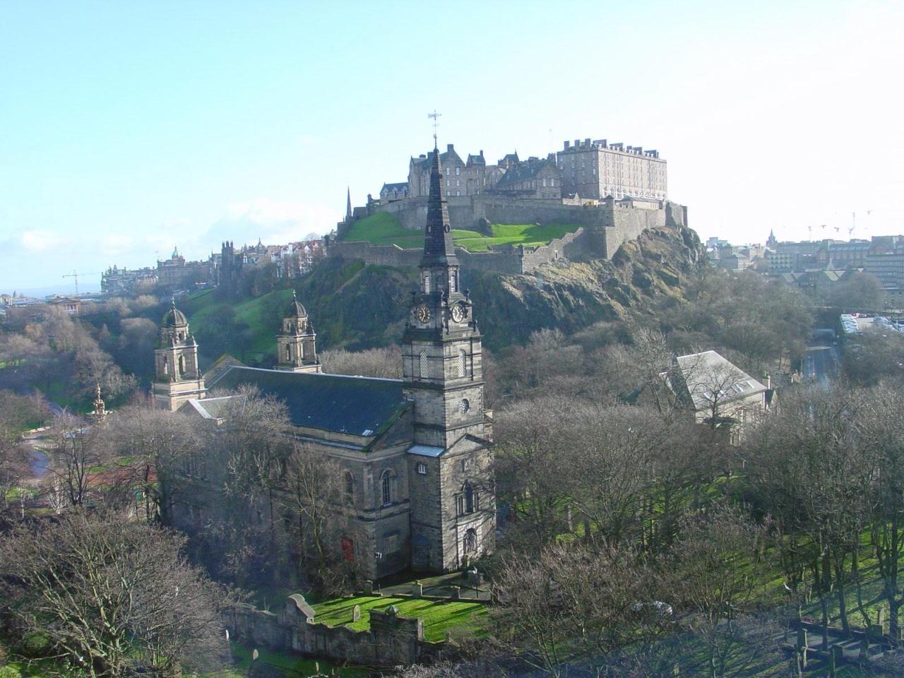 Exterior of St Cuthbert's Parish Church, Lothian Road, Edinburgh